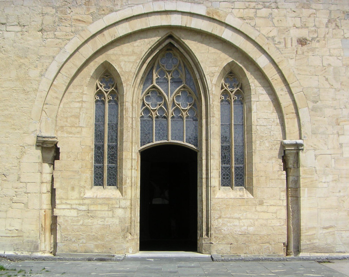 Porch of the Gurk cathedral, Carinthia, Austria